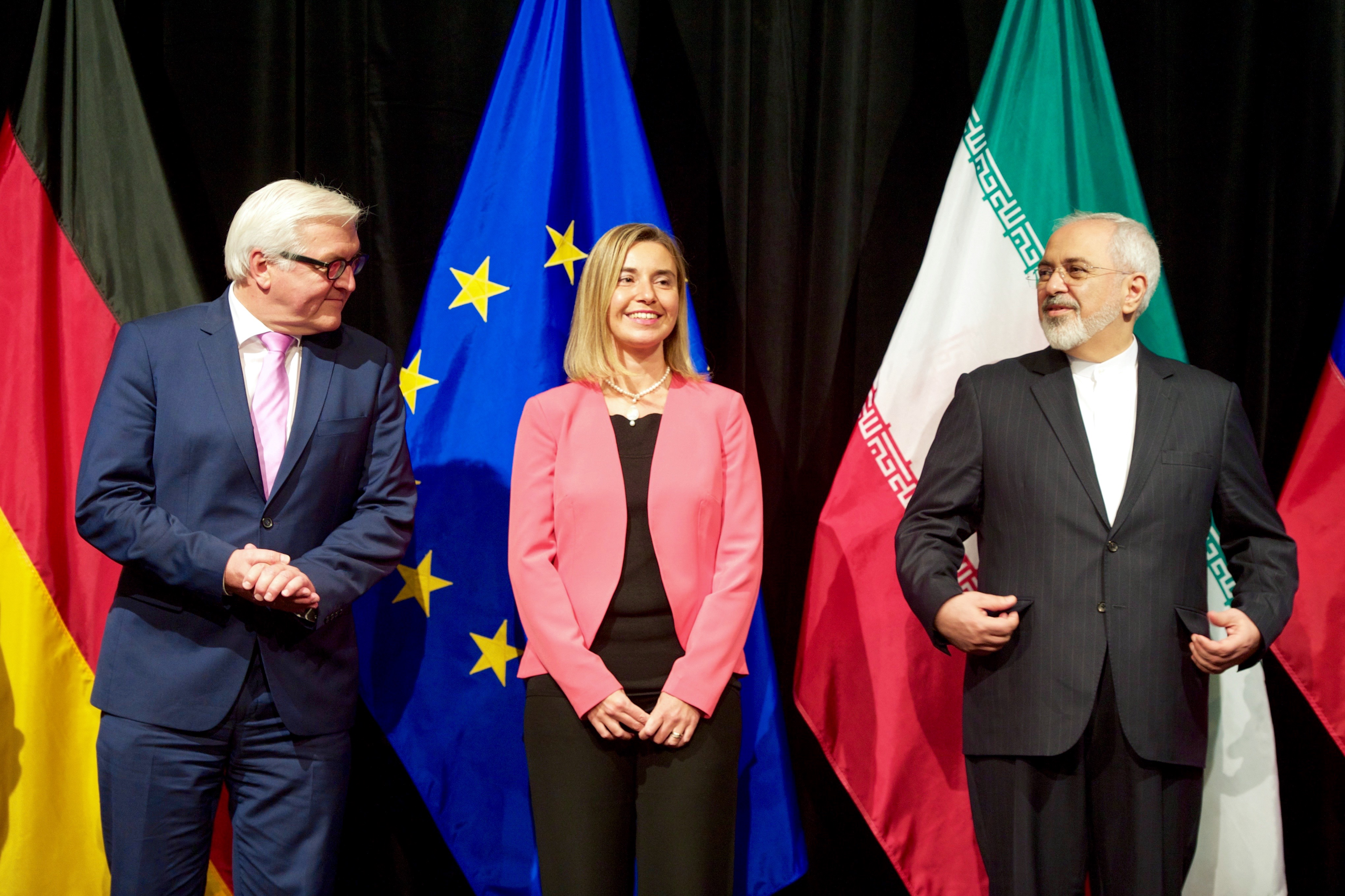 German Foreign Minister Frank-Walter Steinmeier, European Union High Representative for Foreign Affairs Federica Mogherini, and Iranian Foreign Minister Javad Zarif stand together on the stage at the Austria Center in Vienna, Austria, on July 14, 2015, during a group photo after the European Union, United States, and the rest of its P5+1 partners reached agreement on a plan to prevent Iran from obtaining a nuclear weapon in exchange for sanctions relief. [State Department photo/ Public Domain]